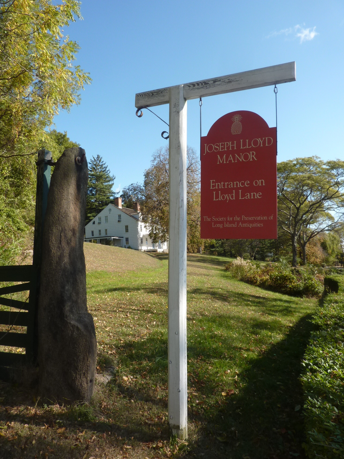 Joseph Lloyd House, Northwest of Huntington on Lloyd Harbor Road Huntington